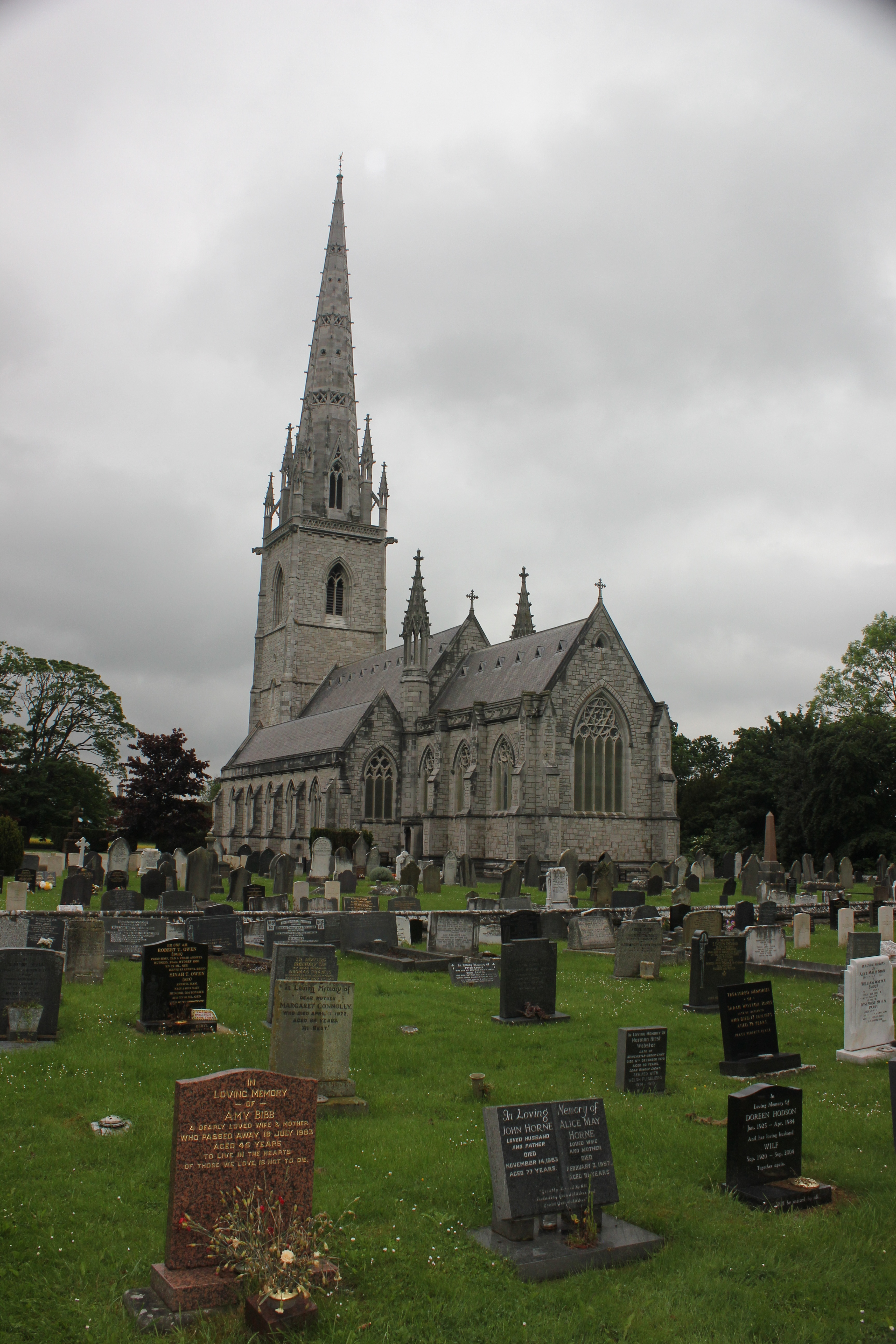 St Margarets Church - Bodelwyddan AKA The Marble Church